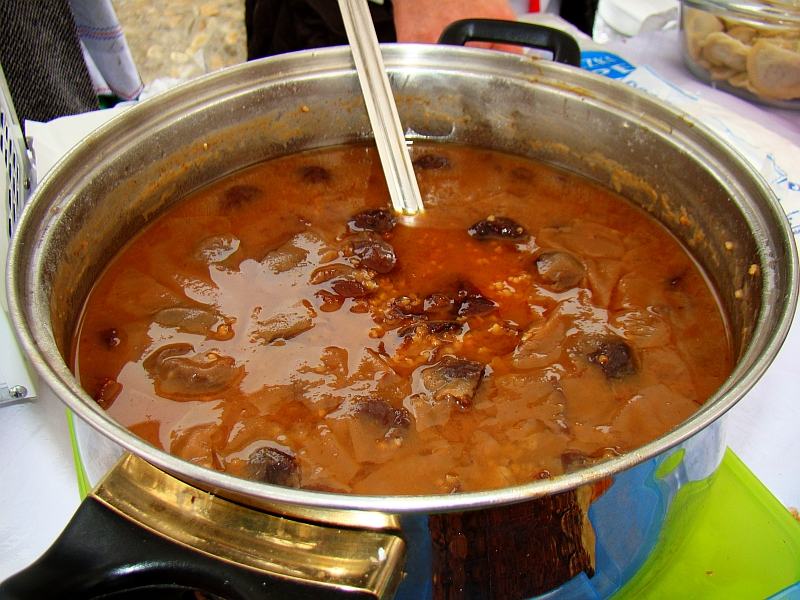 Christmas in Poland